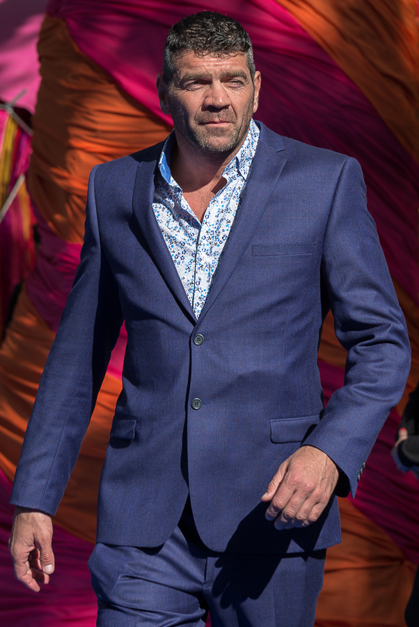 Spencer Wilding at the Pan première